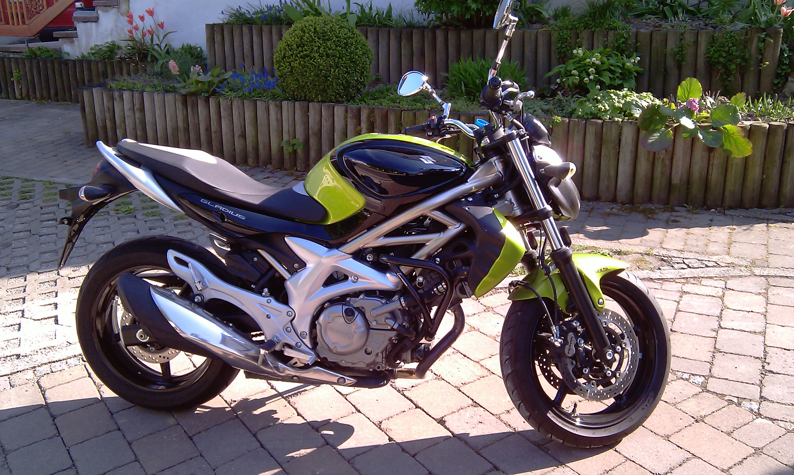 SFV 650 ABS Black/Green (Yellow)